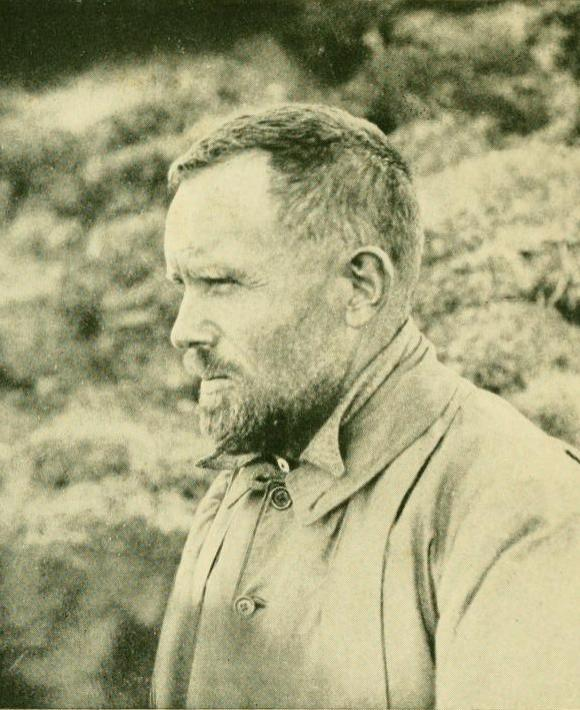 Profile shot of Dr. Rudolph Martin Anderson (June 30, 1876 – June 21, 1961), American-Canadian zoologist and explorer.